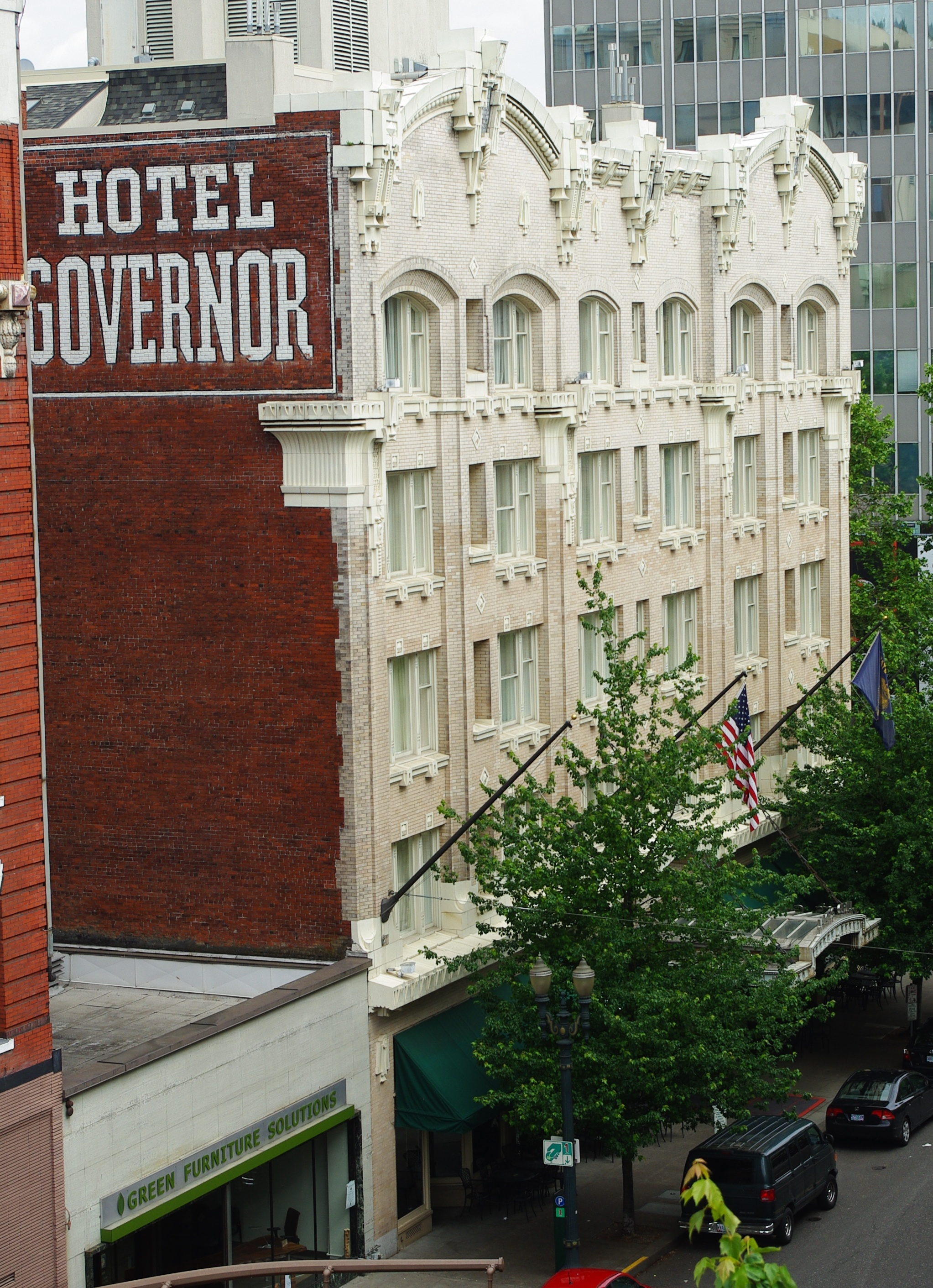 Sentinel Hotel in downtown Portland, Oregon. Formerly the Governor Hotel.